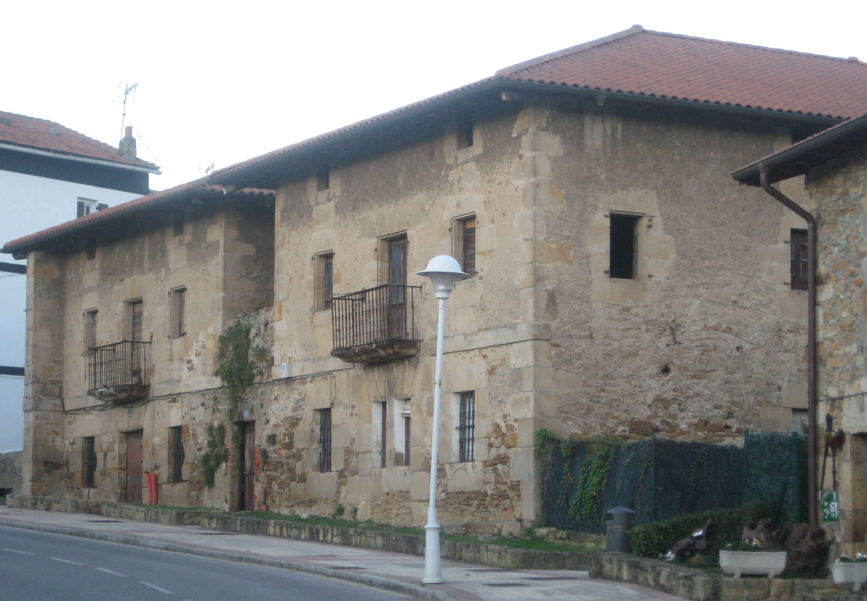 Priests houses near Saint Peter's church in Zabaloetxe, Loiu, Biscay.